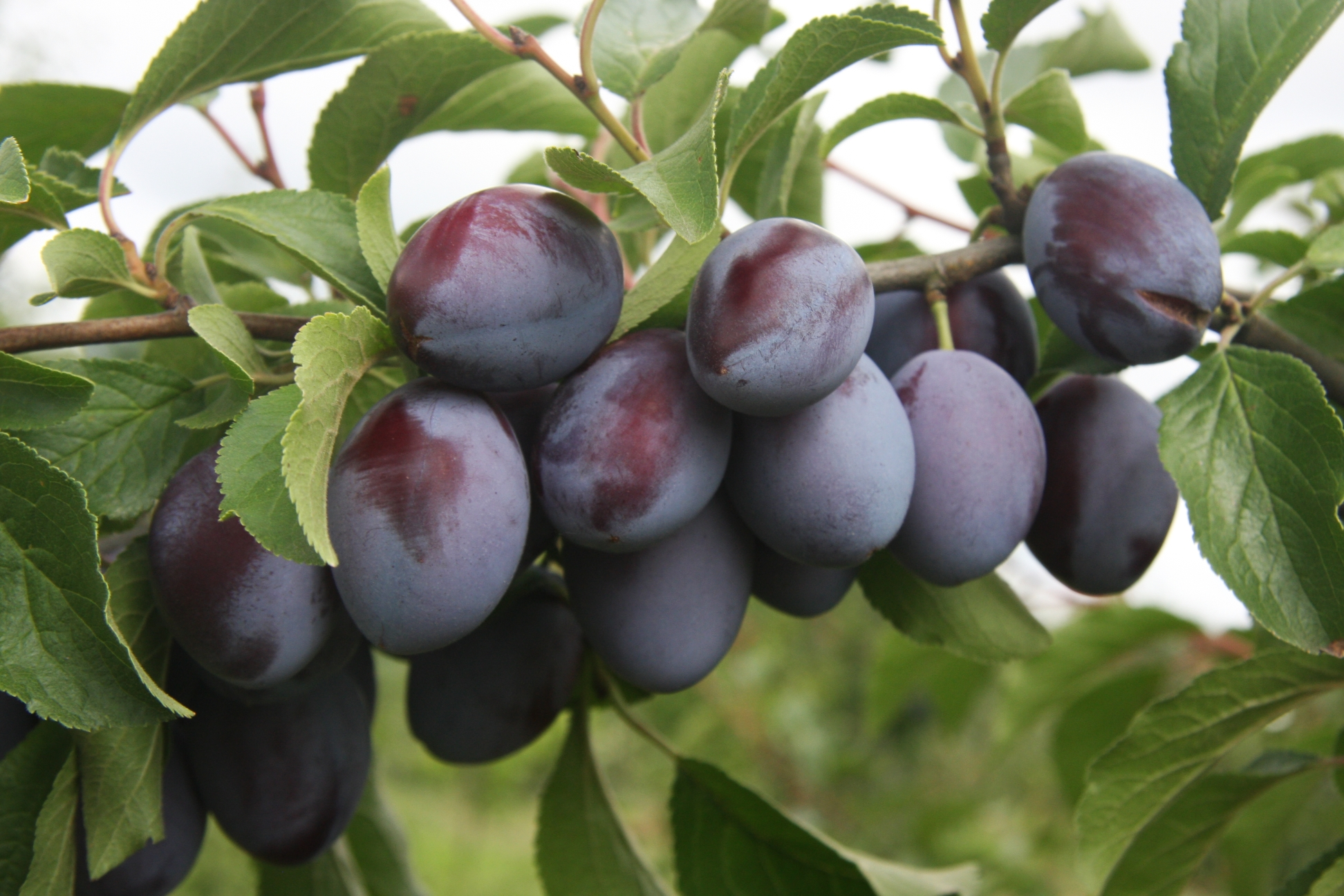 Fruits of damson plum